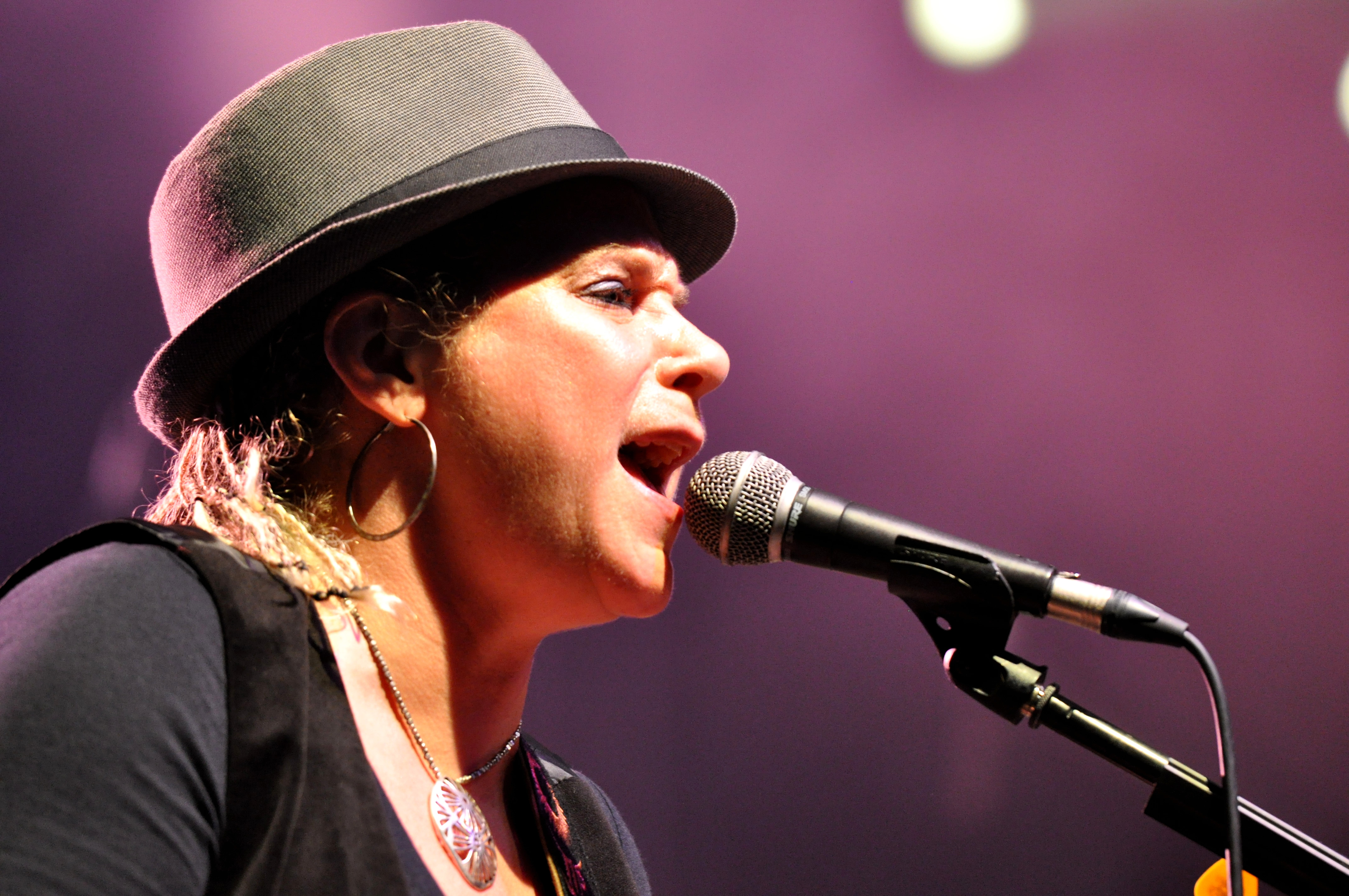 Antigone Rising (USA) appearance at the 2016 blacksheep festival at Bonfeld castle, Bad Rappenau, Baden-Wuerttemberg, Germany Festivalsommer This photo was created with the support of donations to Wikimedia Deutschland in the context of the CPB project "Festival Summer".